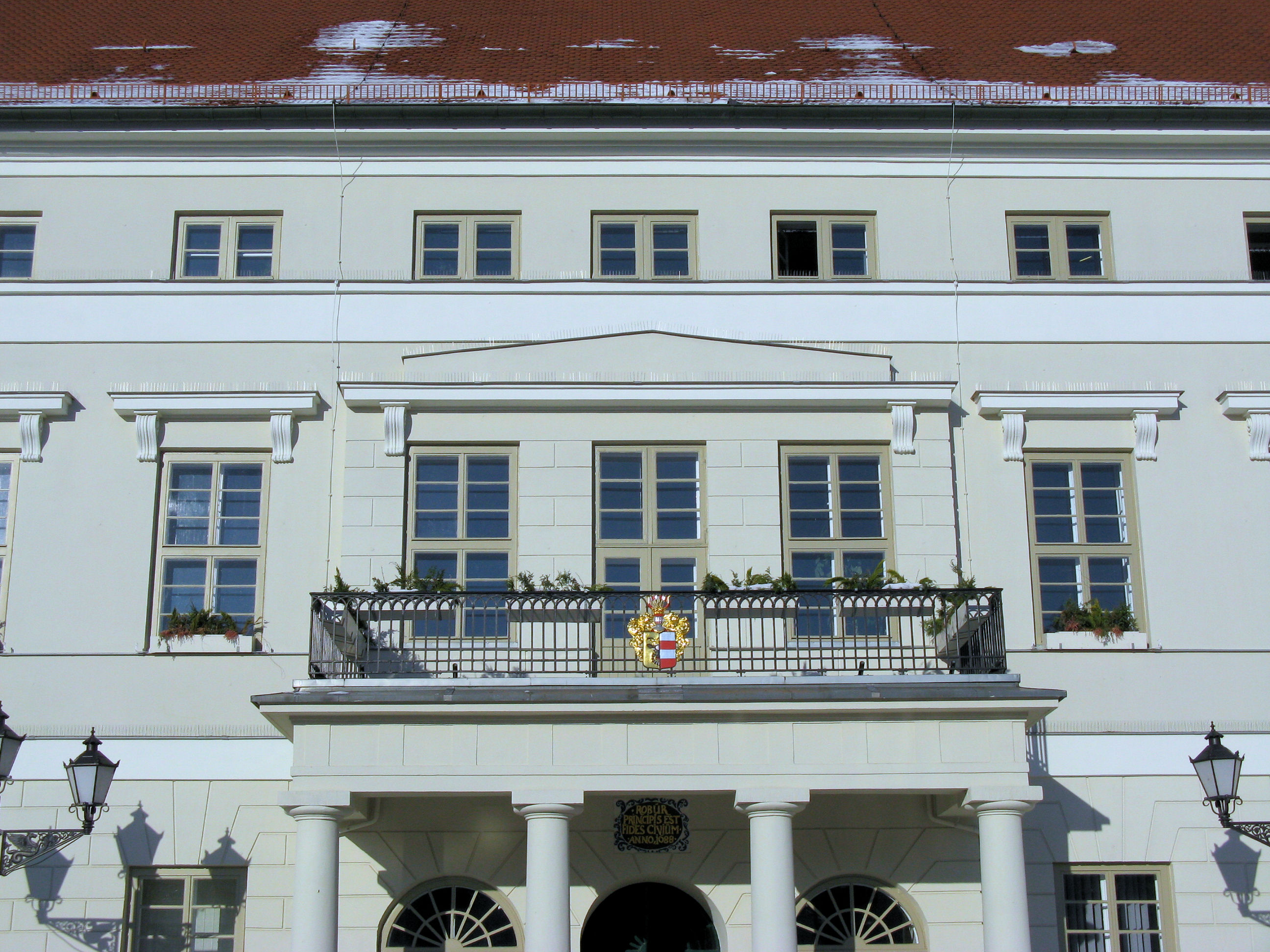 Town hall (detail) in Wismar, Mecklenburg-Vorpommern, Germany